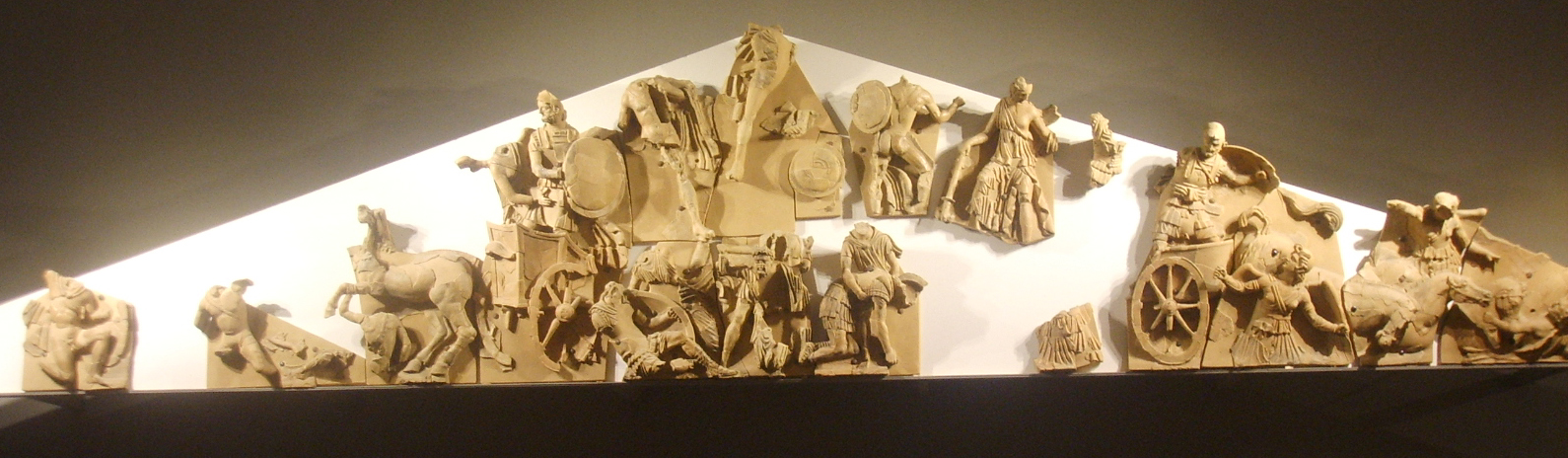 Terracotta pediment from the temple of Talamone (Grosseto), the first closed pediment in Etruria, showing the fate of the Seven against Thebes.